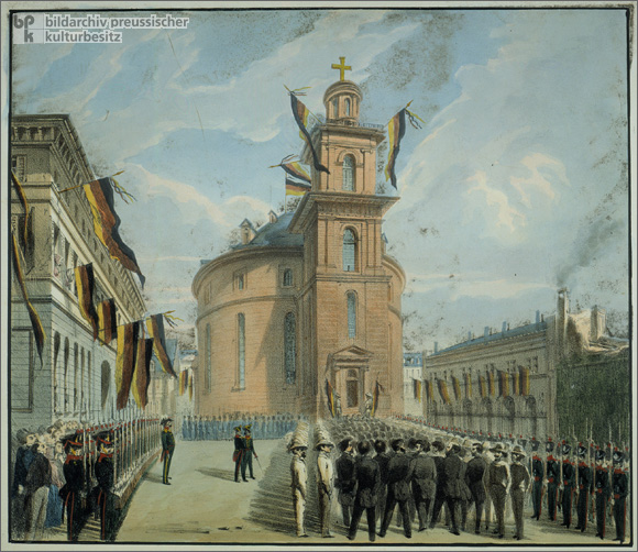 In this lithograph, a procession of delegates to the pre-parliament moves toward St. Paul’s Church (Frankfurt) on March 30, 1848 through a phalanx of students, and other supporters. The pre-parliament was a 500-member legislative body that determined the framework of subsequent political proceedings on the national level.